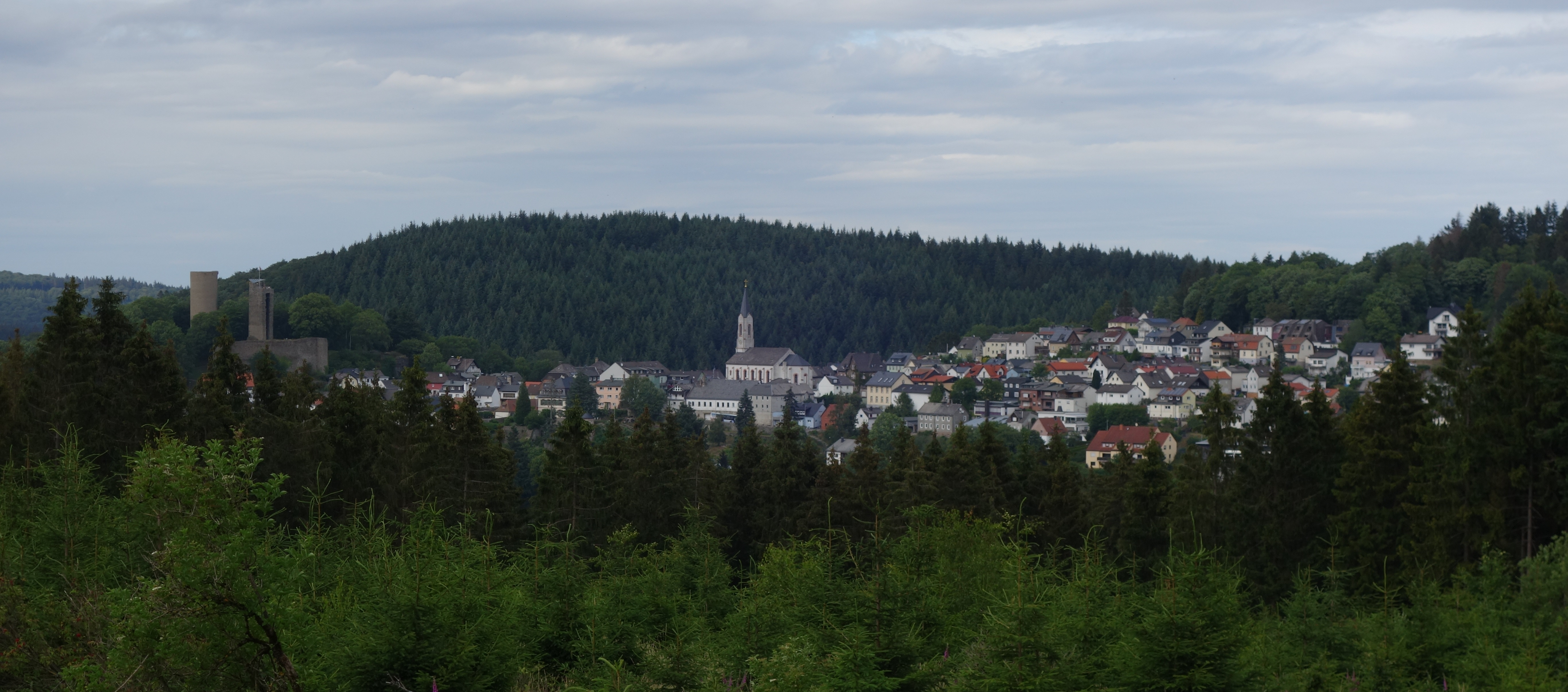 Sängelberg above Oberreifenberg as seen from Hühnerberg